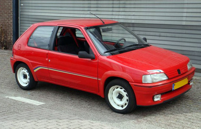 1995 Peugeot 106 Rallye 1.3 (phase 1)